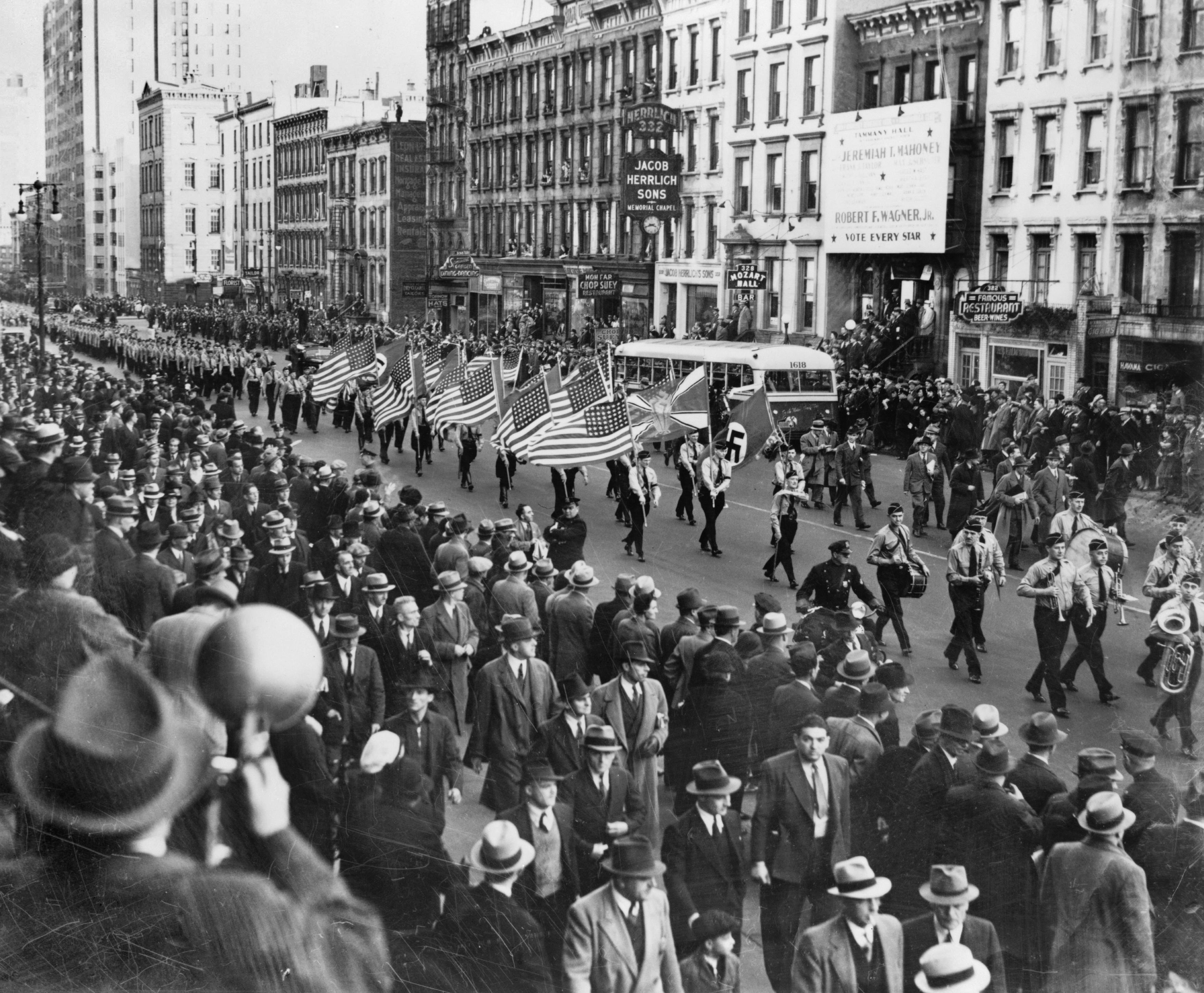 German American Bund parade in New York City on East 86th St. Oct. 30, 1939 / World-Telegram photo.